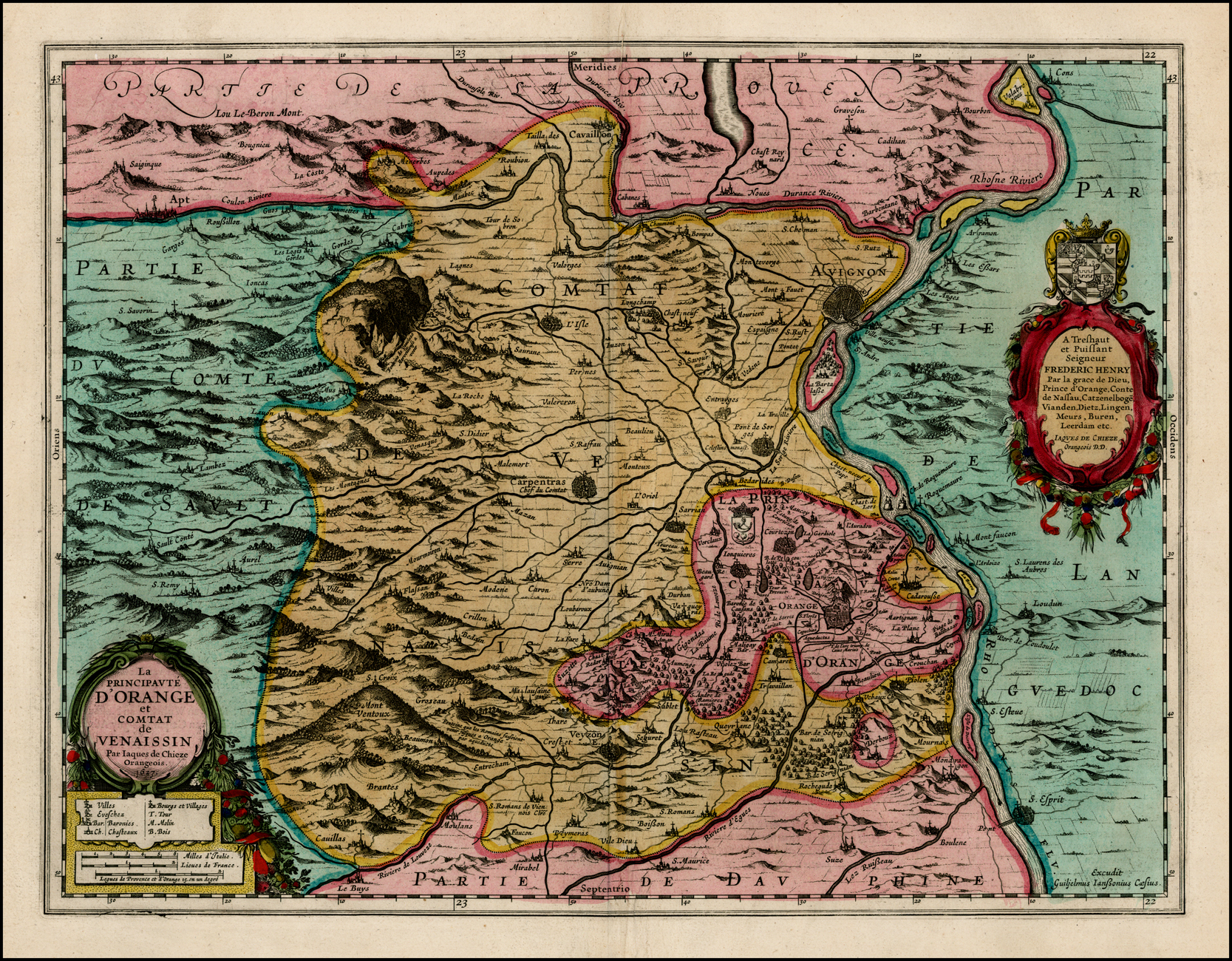 La Principaute D'Orange et Comtat de Venaissin Par Iaques de Chieze Orangeois. 1627. See BNF for more information. Another copy at the BNF with zoom here.